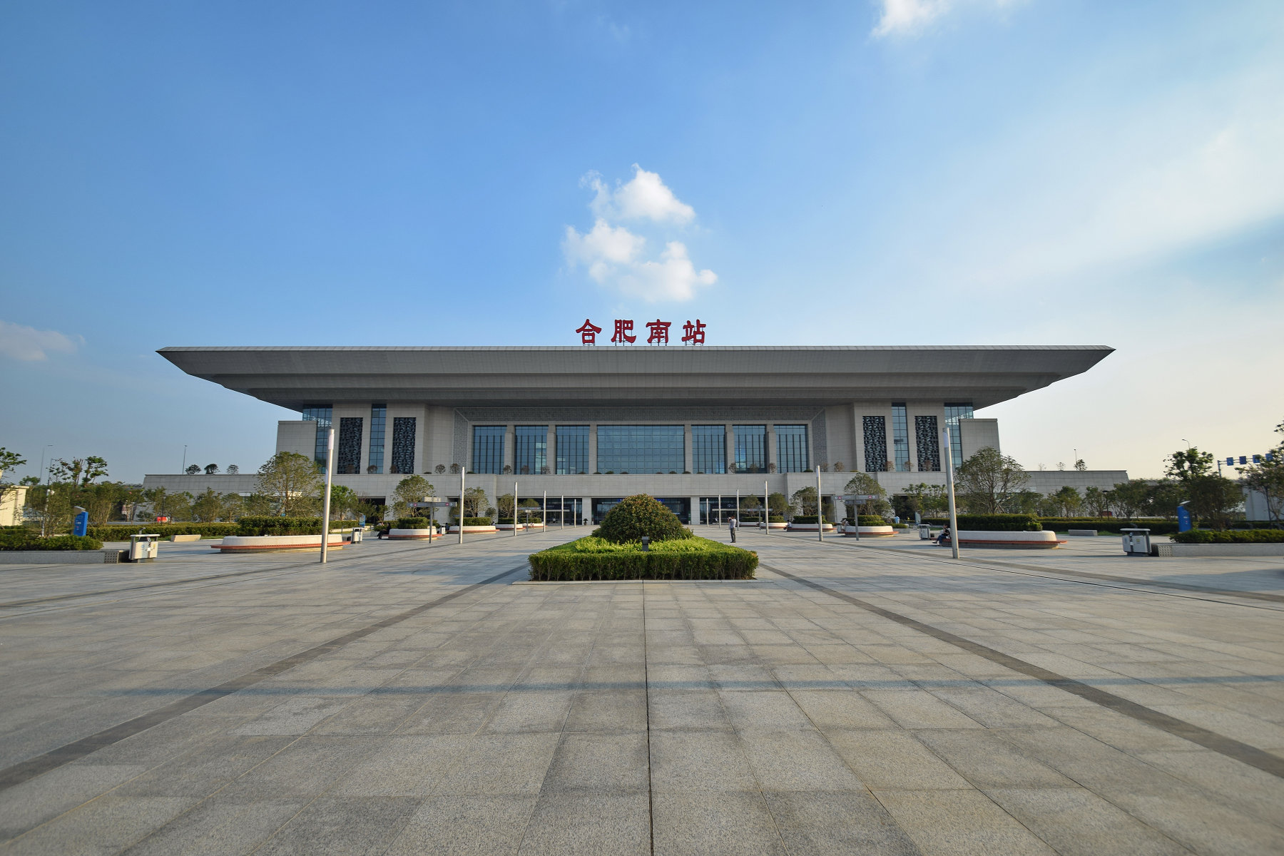 North Square of Hefei Nan (South) Railway Station